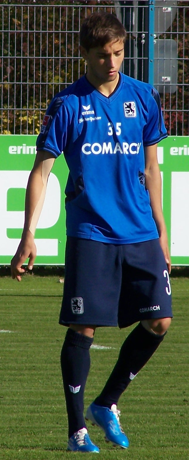 Moritz Leitner, 1860 munich, training